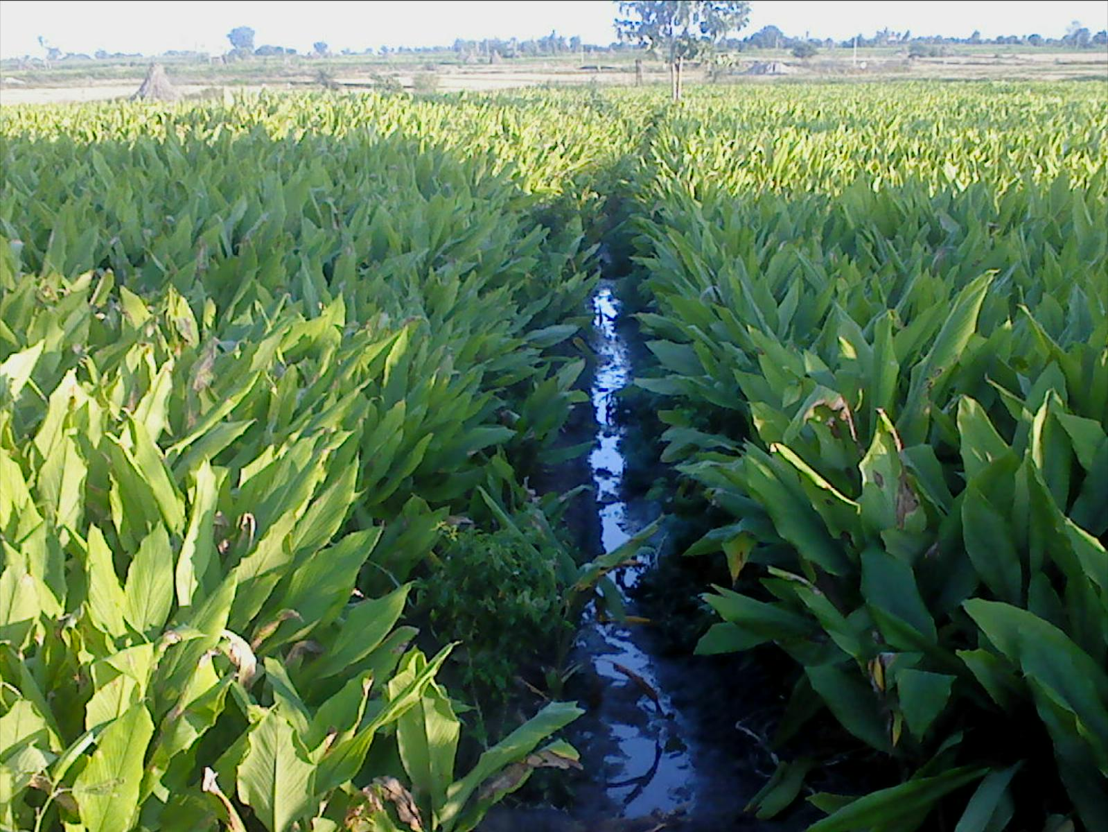 Turmeric cultivation in Kothapally, India